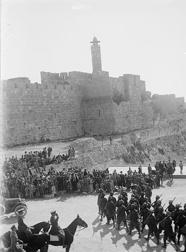 TITLE: Capture and occupation of Palestine by British. British troops on parade at Jaffa Gate CALL NUMBER: LC-M31- 60075-x[P&P] REPRODUCTION NUMBER: LC-DIG-matpc-11530 (digital file from original photo) RIGHTS INFORMATION: No known restrictions on publication. MEDIUM: 1 negative : glass, dry plate ; 4 x 5 in. CREATED/PUBLISHED: 1917 Dec. CREATOR: American Colony (Jerusalem). Photo Dept., photographer. NOTES: Creator name based on date. Title from negative sleeve. On guide card: Dec. 1917. Gift; Episcopal Home; 1978. SUBJECTS: Jerusalem. FORMAT: Dry plate negatives. PART OF: G. Eric and Edith Matson Photograph Collection REPOSITORY: Library of Congress Prints and Photographs Division Washington, D.C. 20540 USA DIGITAL ID: (digital file from original photo) matpc 11530 CONTROL #: mpc2005002810/PP